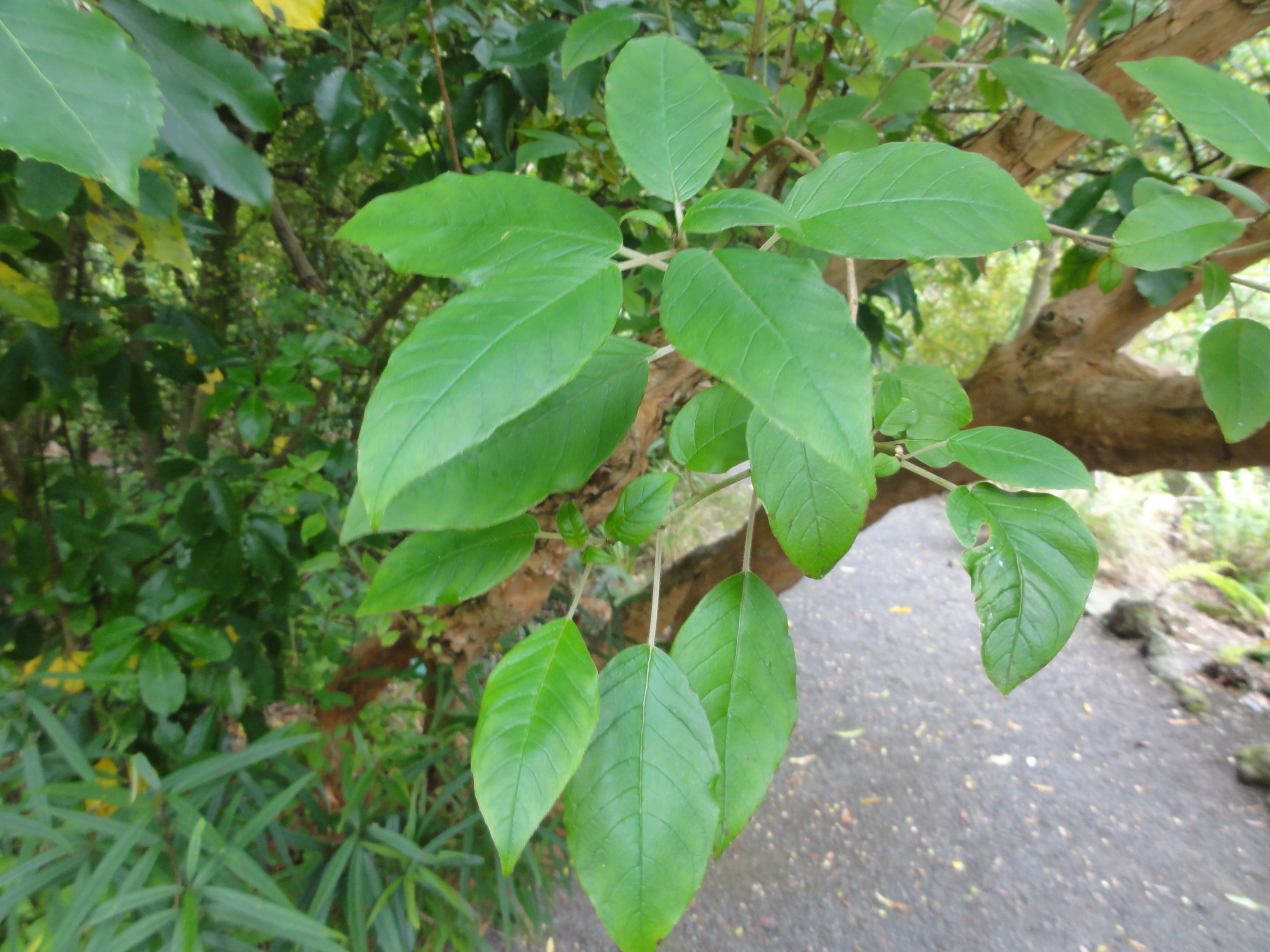 Fuchsia excorticata, leaves, Christchurch Botanic Gardens